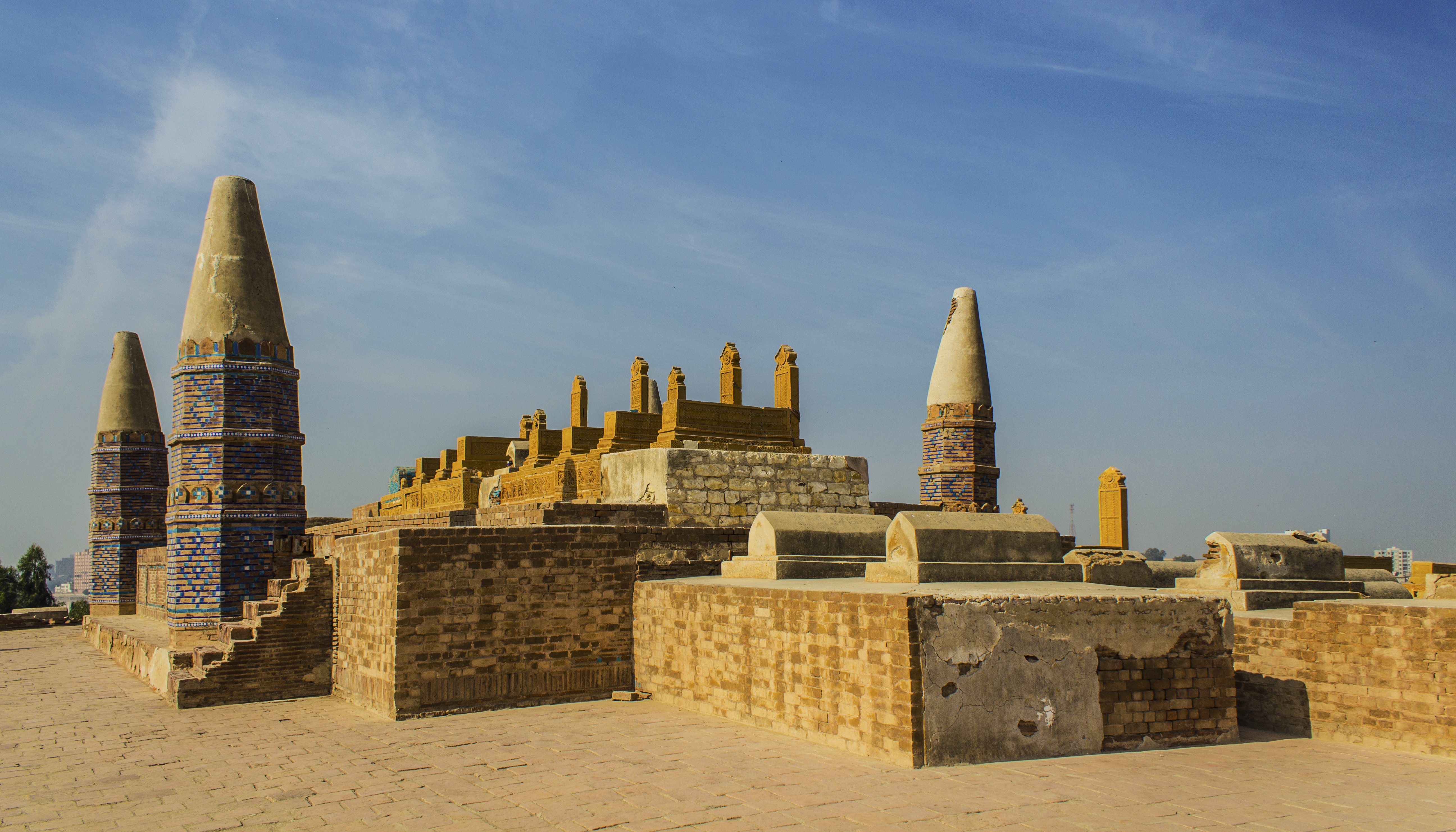 Sateen Jo Aastan is the resting place for the Seven Female-friends. Its located in Sukkur Sindh, Pakistan